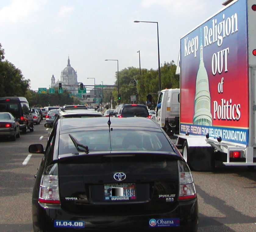 Traffic jam caused by law enforcement agents during 2008 Republican Convention in Saint Paul, Minnesota